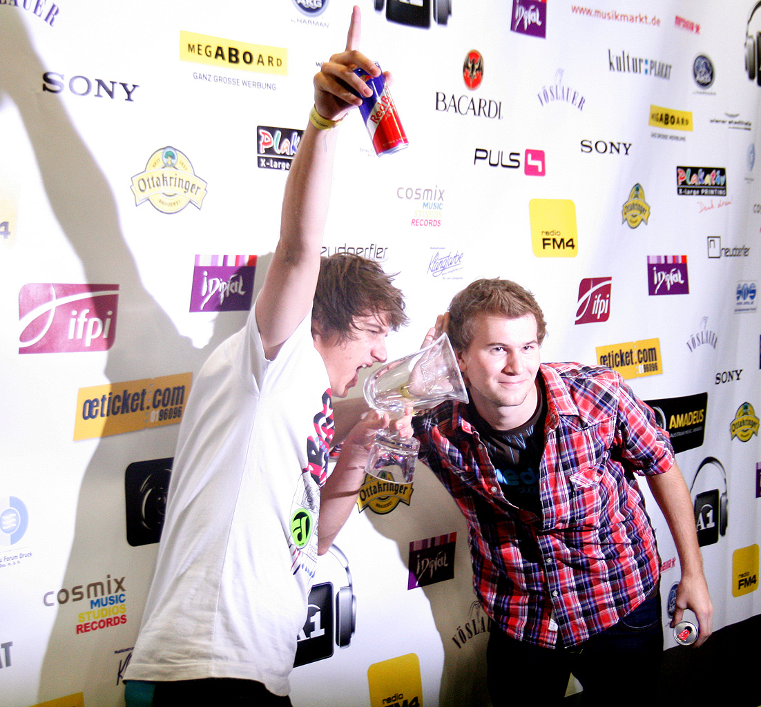 Camo and Krooked at the Amadeus Austrian Music Award 2010 (Wiener Stadthalle, Vienna, Austria)